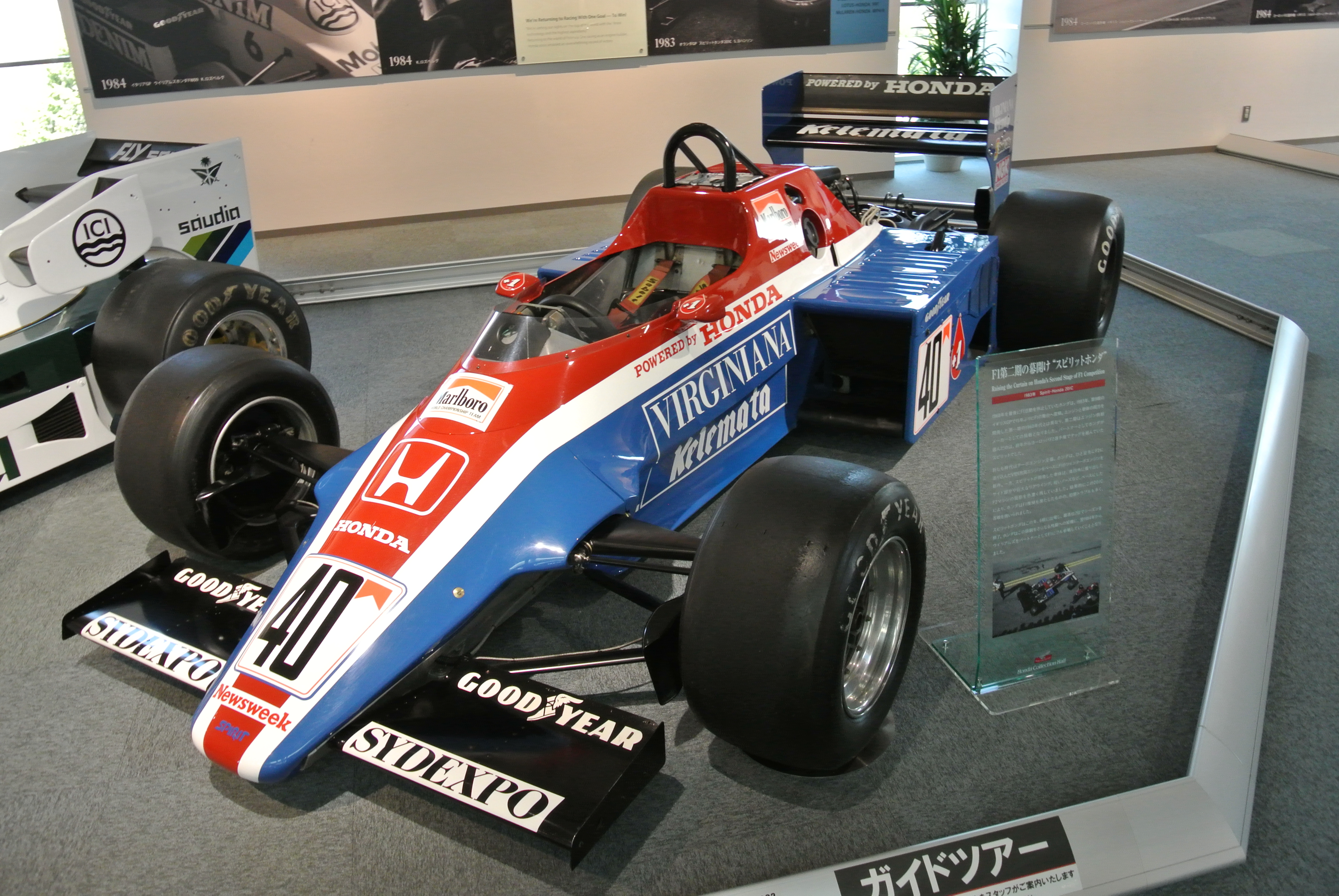 1983 Spilit Honda 201C in the Honda Collection Hall.